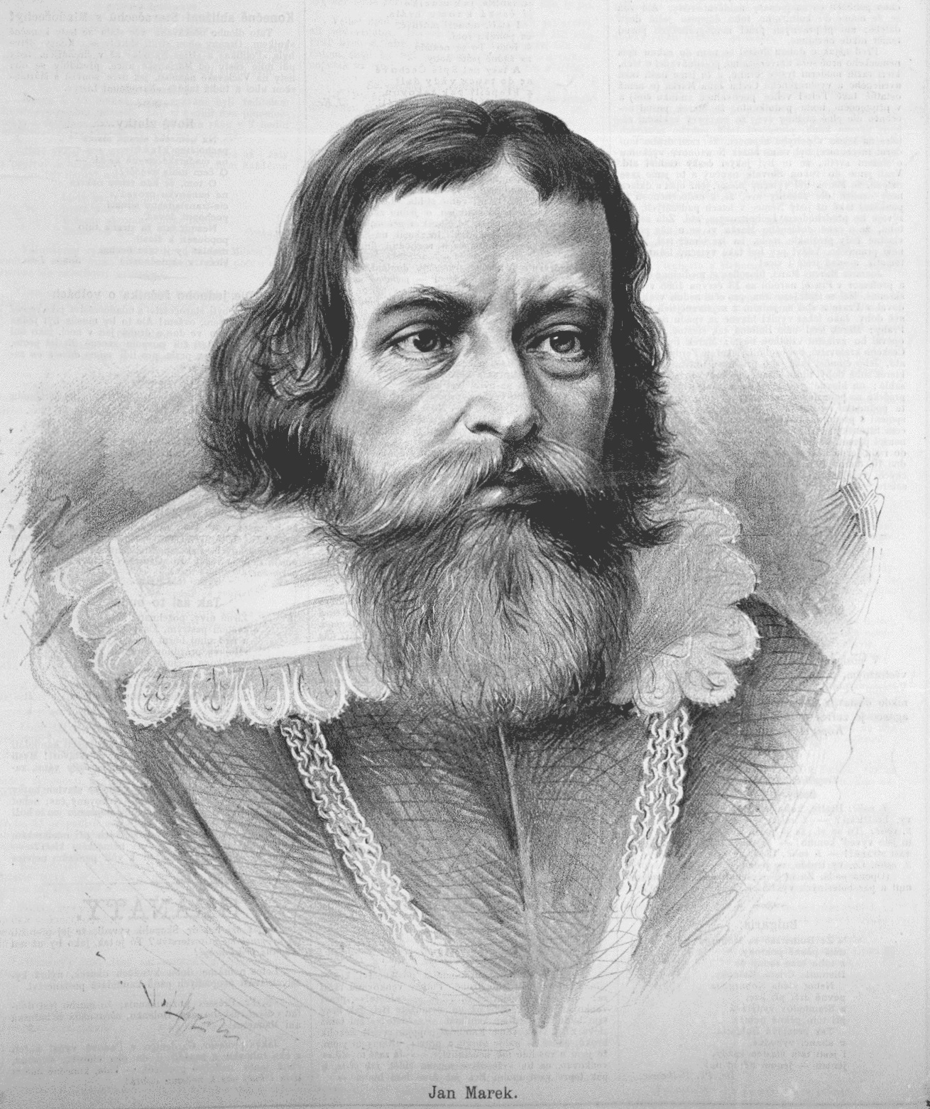 Jan Marcus Marci